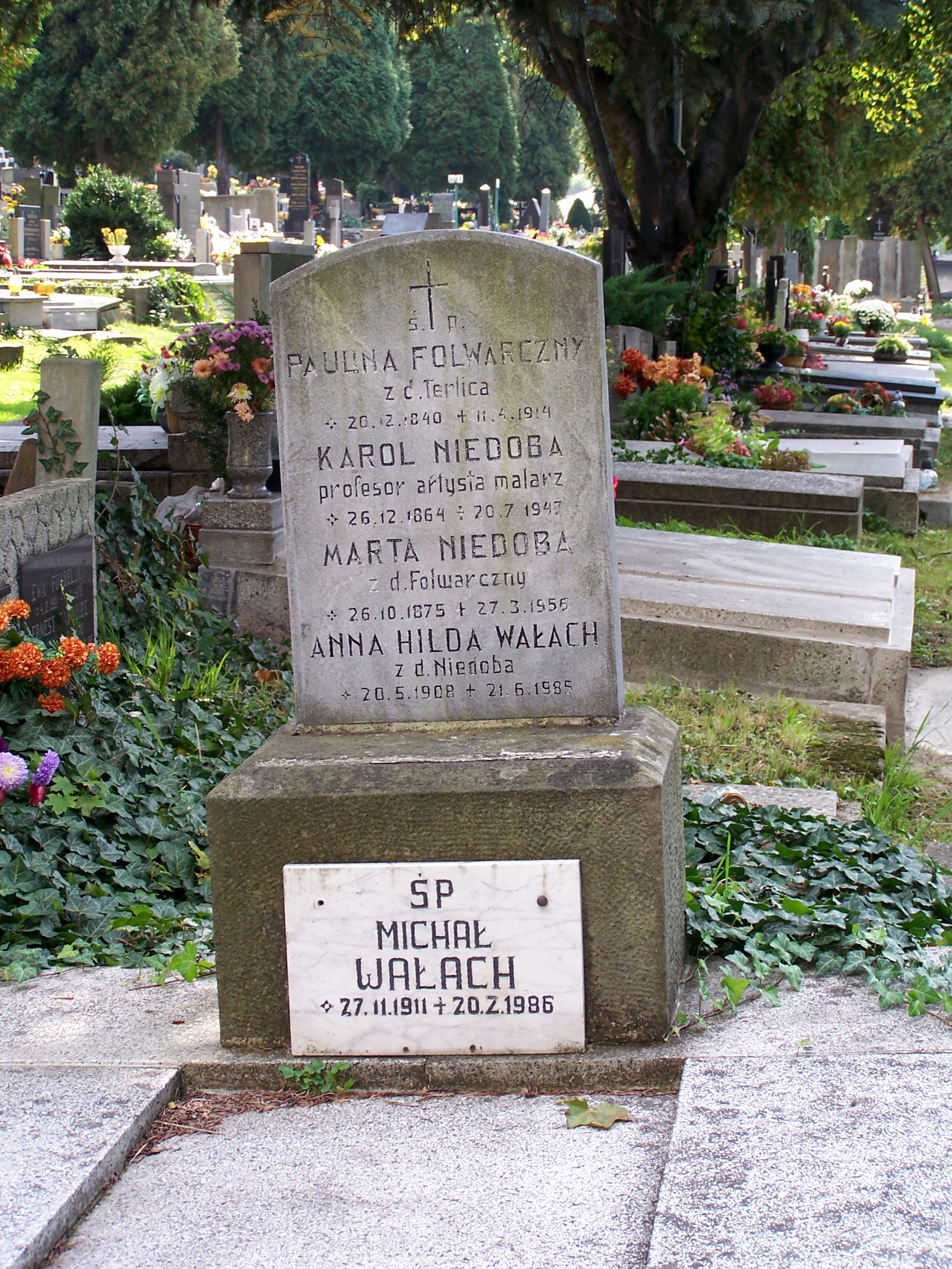 Grave of Karol Niedoba, painter at the Protestant cemetery in Cieszyn, Poland